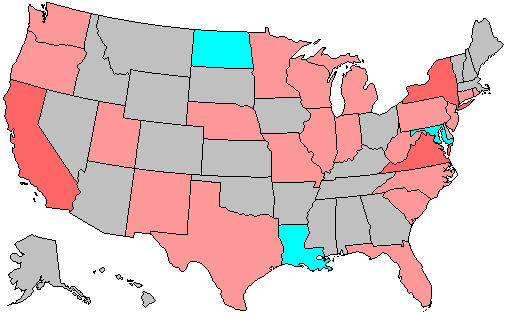 Summary of party change of U.S. house seats in the 1980 House election. Stripes indicate a tie between the gains of two or more parties. Legend: 6+ Democratic seat pickup 3-5 Democratic seat pickup 1-2 Democratic seat pickup 1-2 Republican seat pickup 3-5 Republican seat pickup 6+ Republican seat pickup Note: years ending in 2 may have inconsistent results due to redistricting.